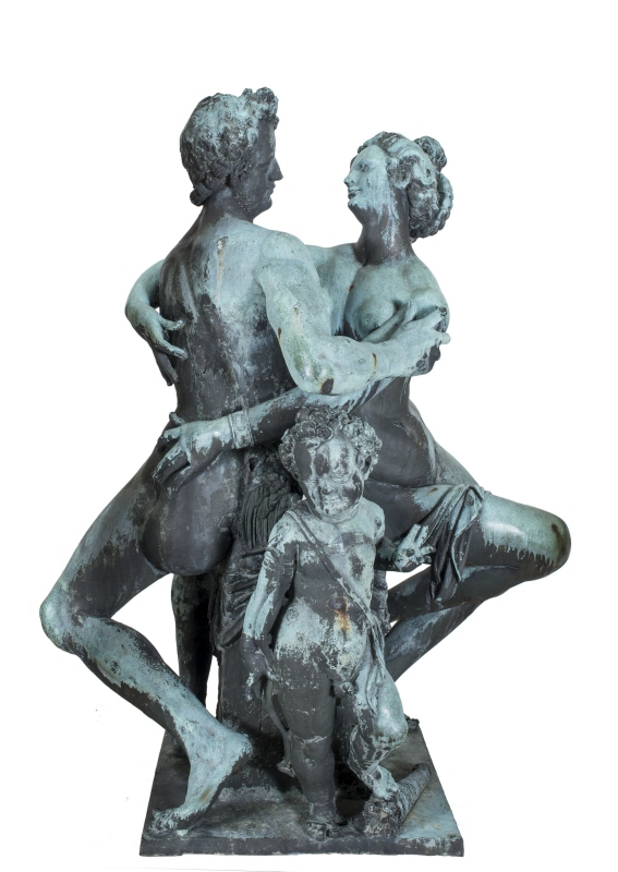 Venus and Adonis - Johannes de Mont (Attributed to). Nationalmuseum, Sweden - CC BY-SA